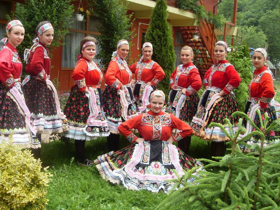 Girls in Kisač Slovak national costume